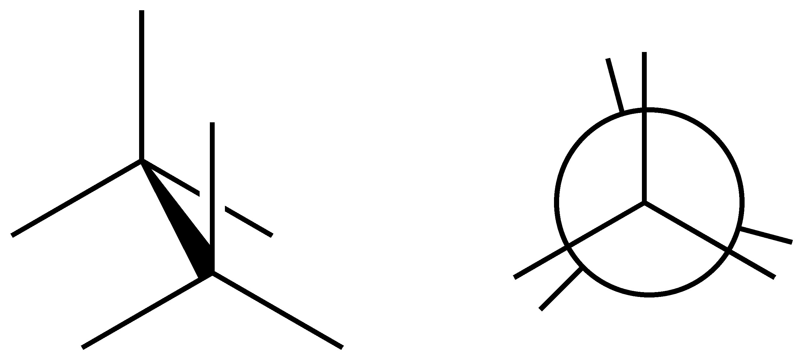 Eclipsed conformer